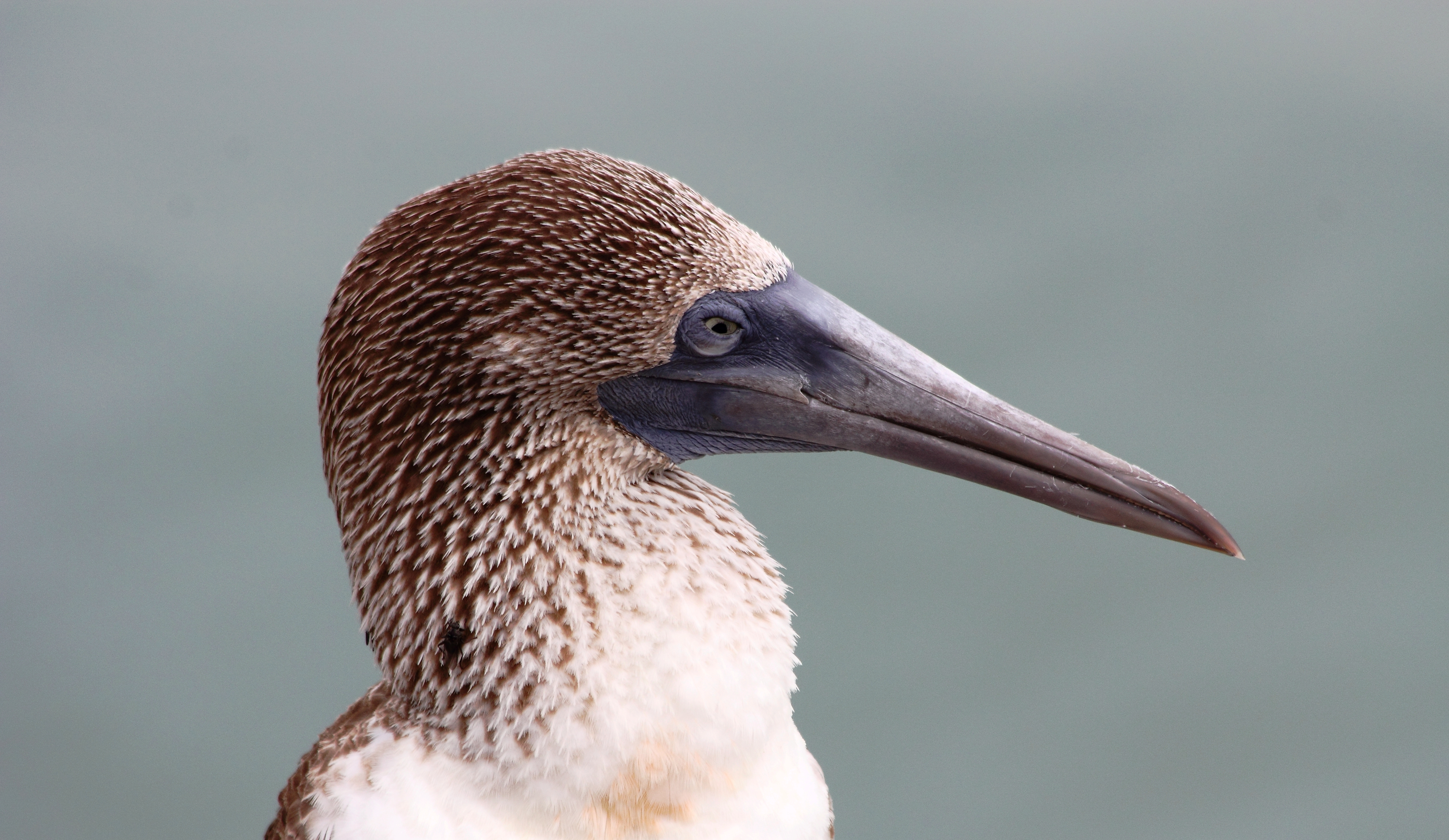 blue-footed booby (Sula nebouxii) on Santa Cruz, Galápagos Islands